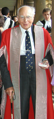 Image of Andrew Huxley 2005, Trinity College Cambridge.